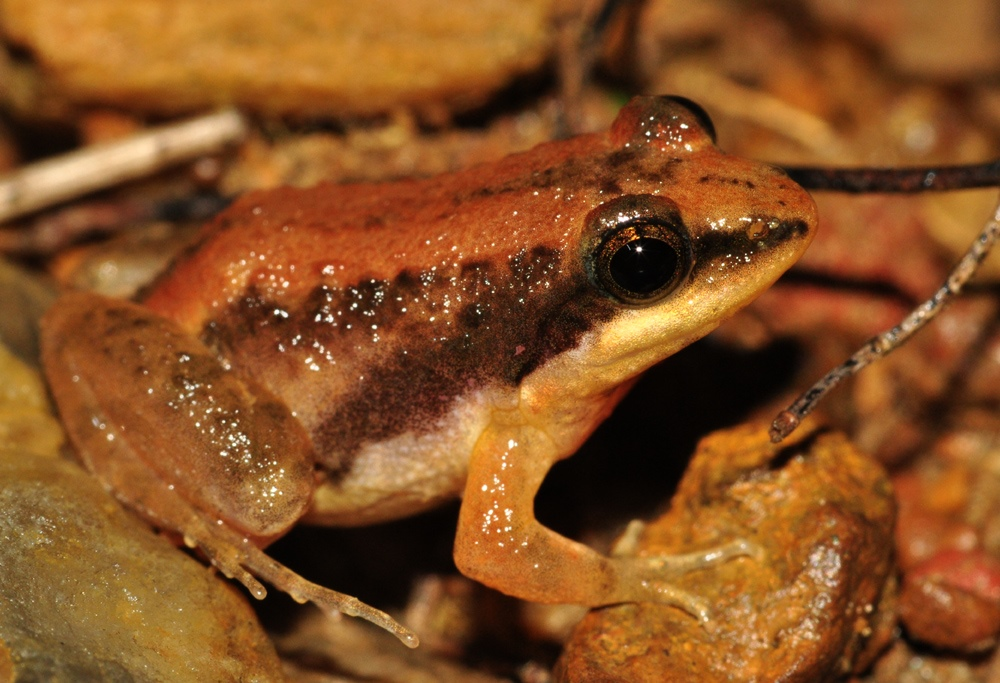 This small frog is a male and was vocalizing at night in water logged abandoned paddy fields in Agumbe